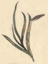 Stainton’s Natural History of the Tineina (1855–1873): Coleophora serratulella mined leaf of “Serratula cyanoides” with larva-case attached